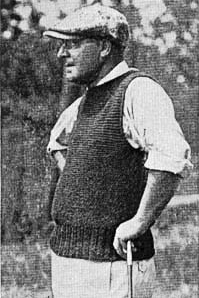 Professional golfer Harry Hampton circa 1921. Author Unknown Date Circa 1921